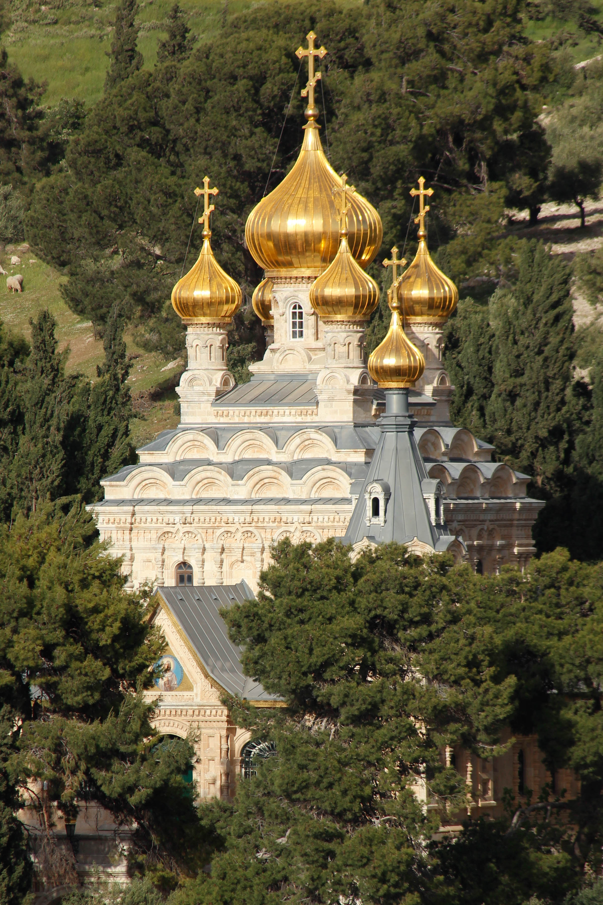 Church of Mary Magdalene in Jerusalem